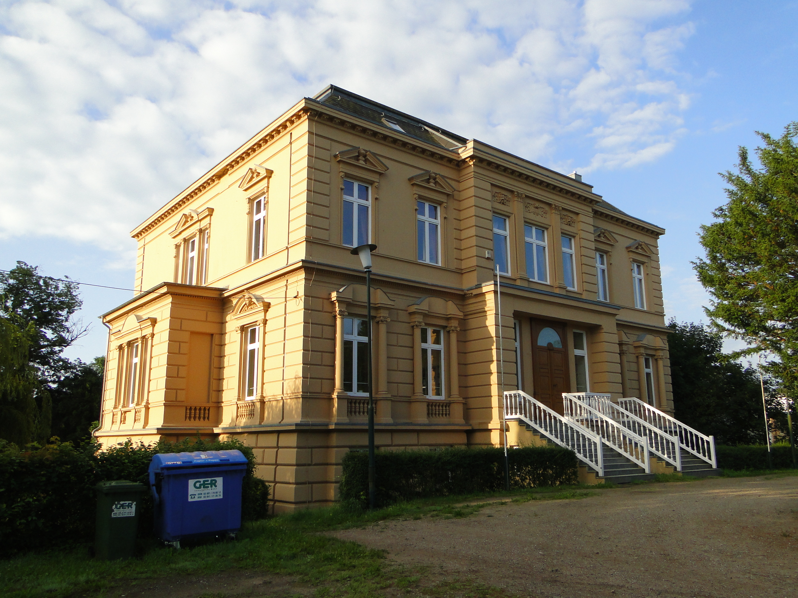 Manor house in Roggendorf, district Nordwestmecklenburg, Mecklenburg-Vorpommern, Germany